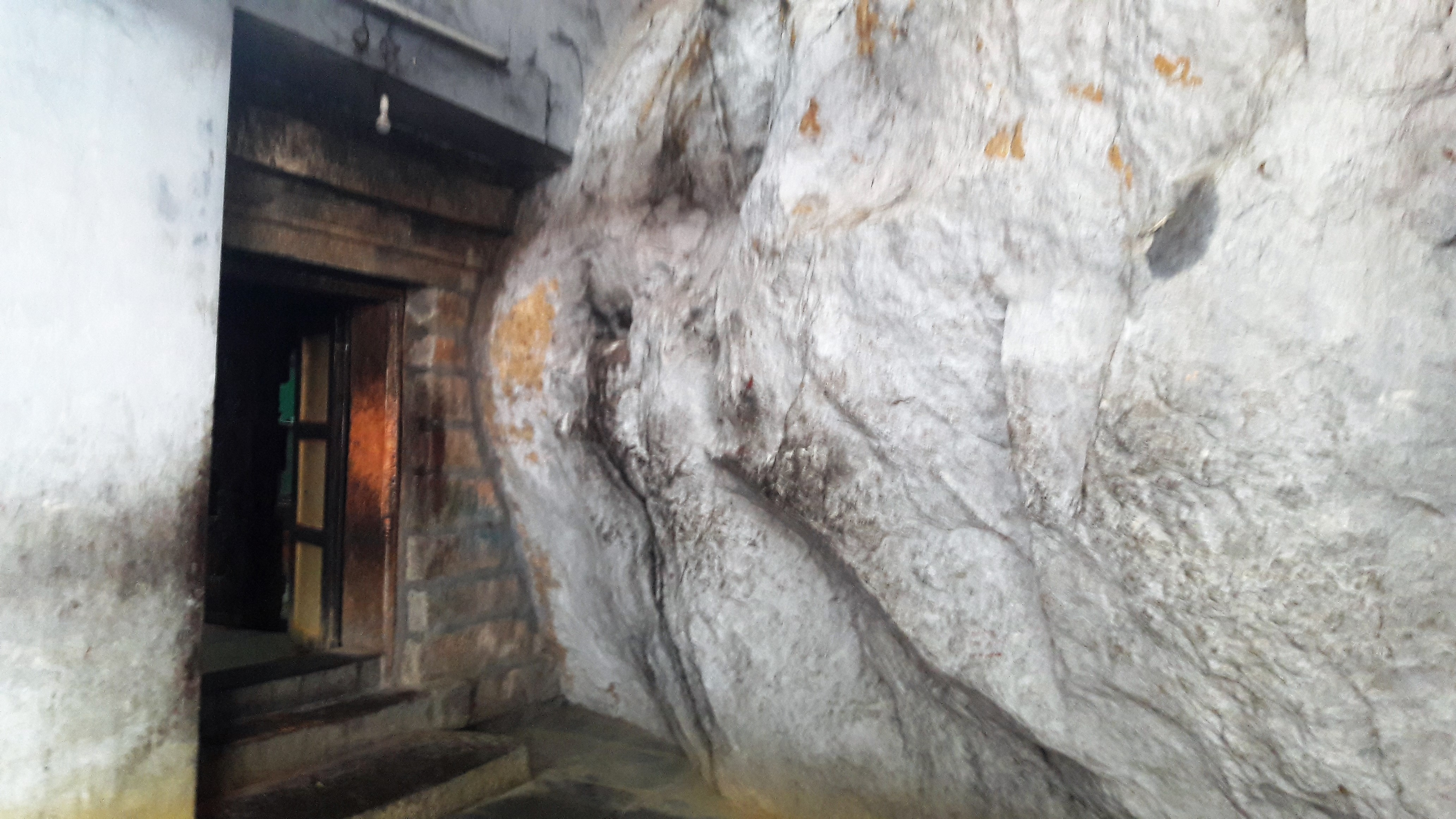 Thiruthankal Ninra Narayana Perumal